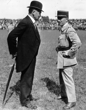 Albert Lebrun, as Minister of the Blockade of Germany, in conversation with René Fonck in 1918.